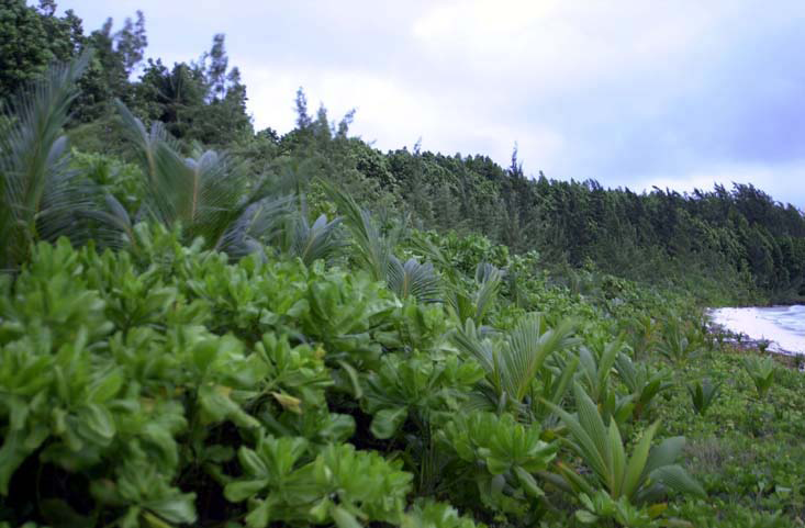 Ocean-side Littoral scrub, Diego Garcia, British Indian Ocean Territory.